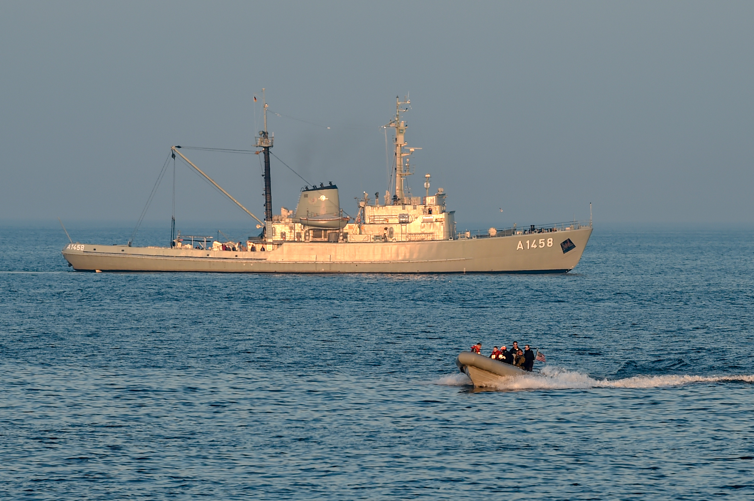 A rigid-hull inflatable boat from the U.S. Navy guided-missile destroyer USS Gravely (DDG-107) transits past the German tug Fehmarn (A 1458) during a passenger transfer exercise in the Baltic Sea on 5 June 2019.